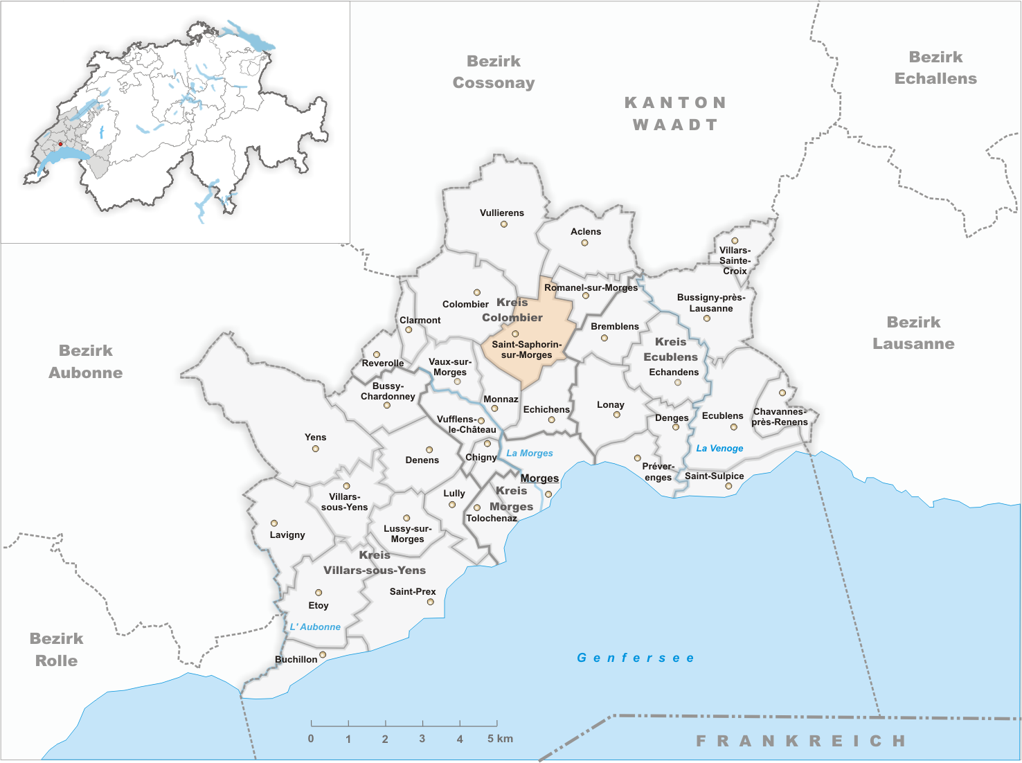 Municipality Saint-Saphorin-sur-Morges